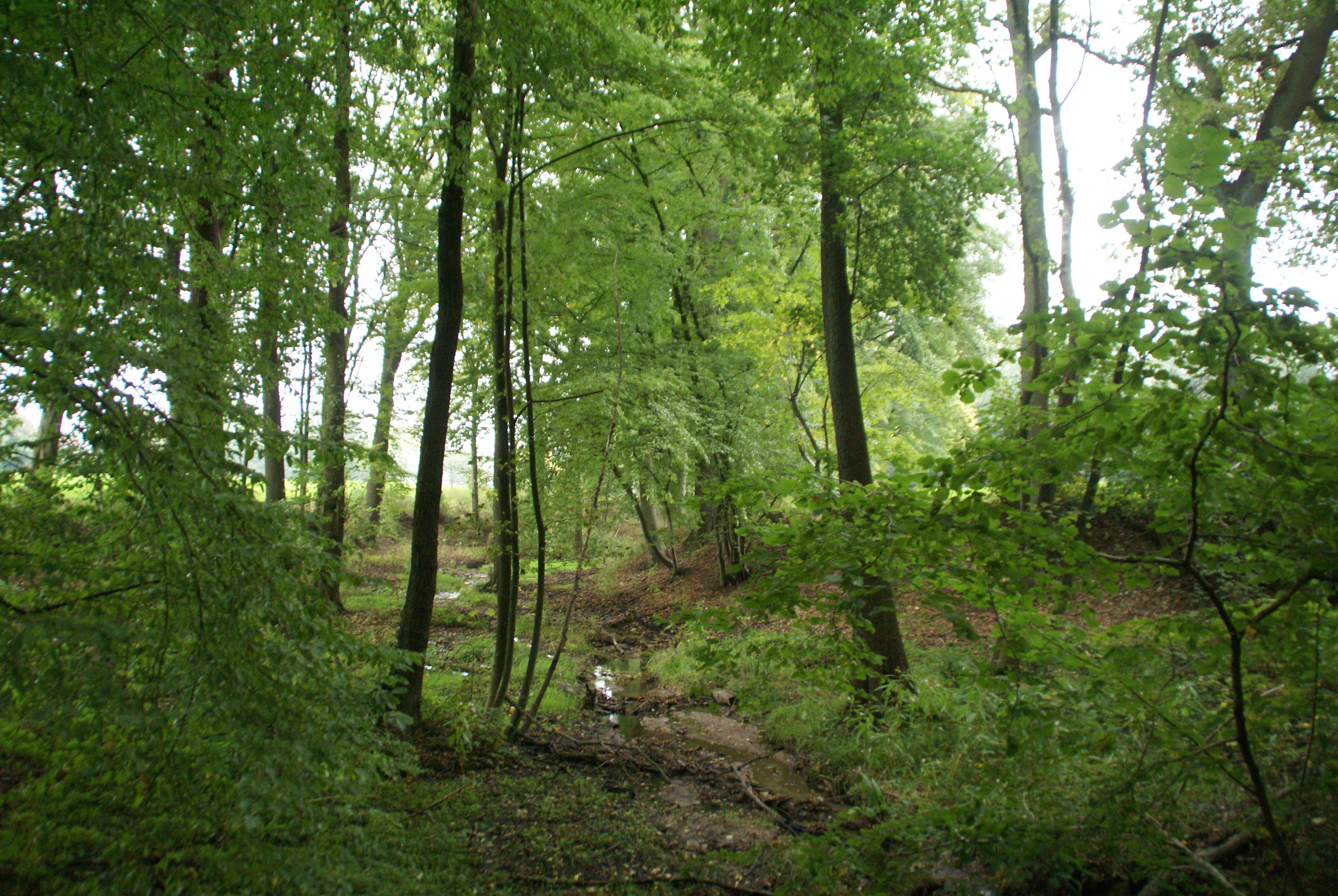 Bergstedt (Germany): The river Furtbek in the natural park Hainesch-Iland